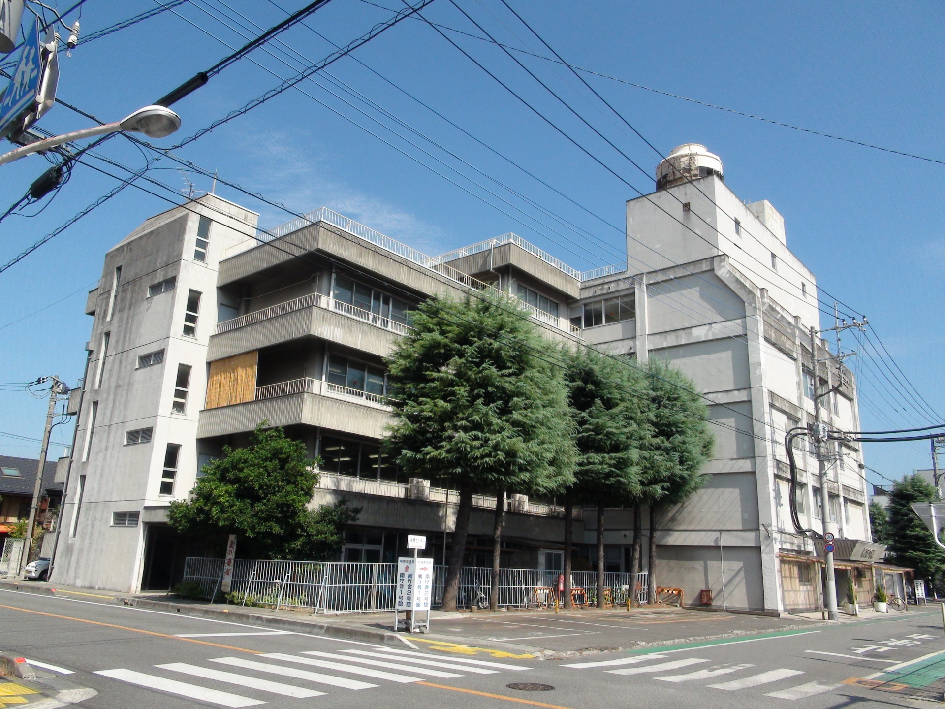 Kofu City Hall South Branch(formerly Kofu Municipal hospital)